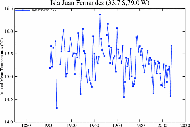 Climate graph of 1901 2008 air average temperaturas at Juan Fernández Islands, Chile